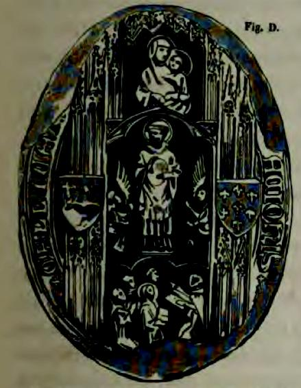 Seal of the Nation of France of the University of Paris